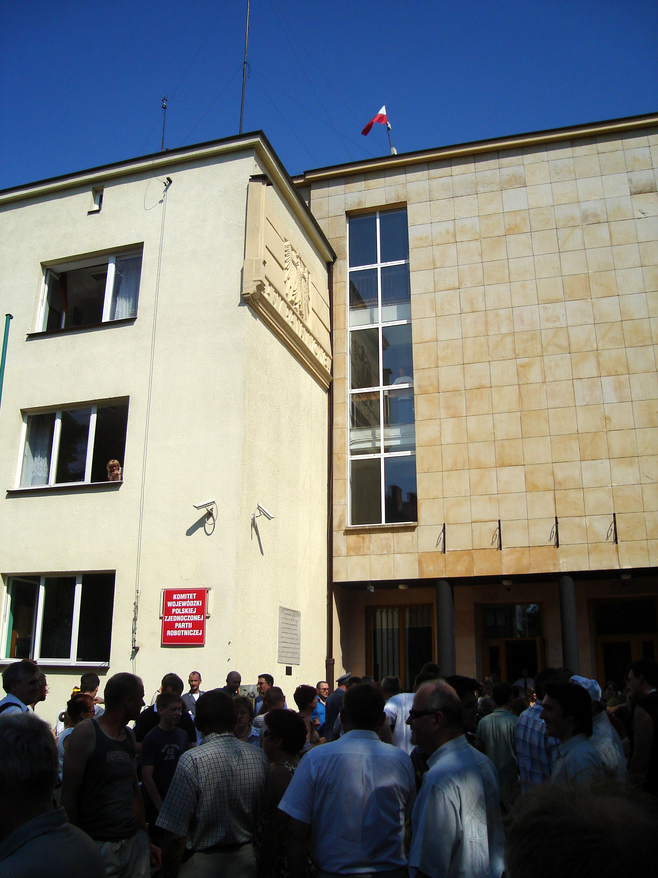 Staging of Radom events 1976